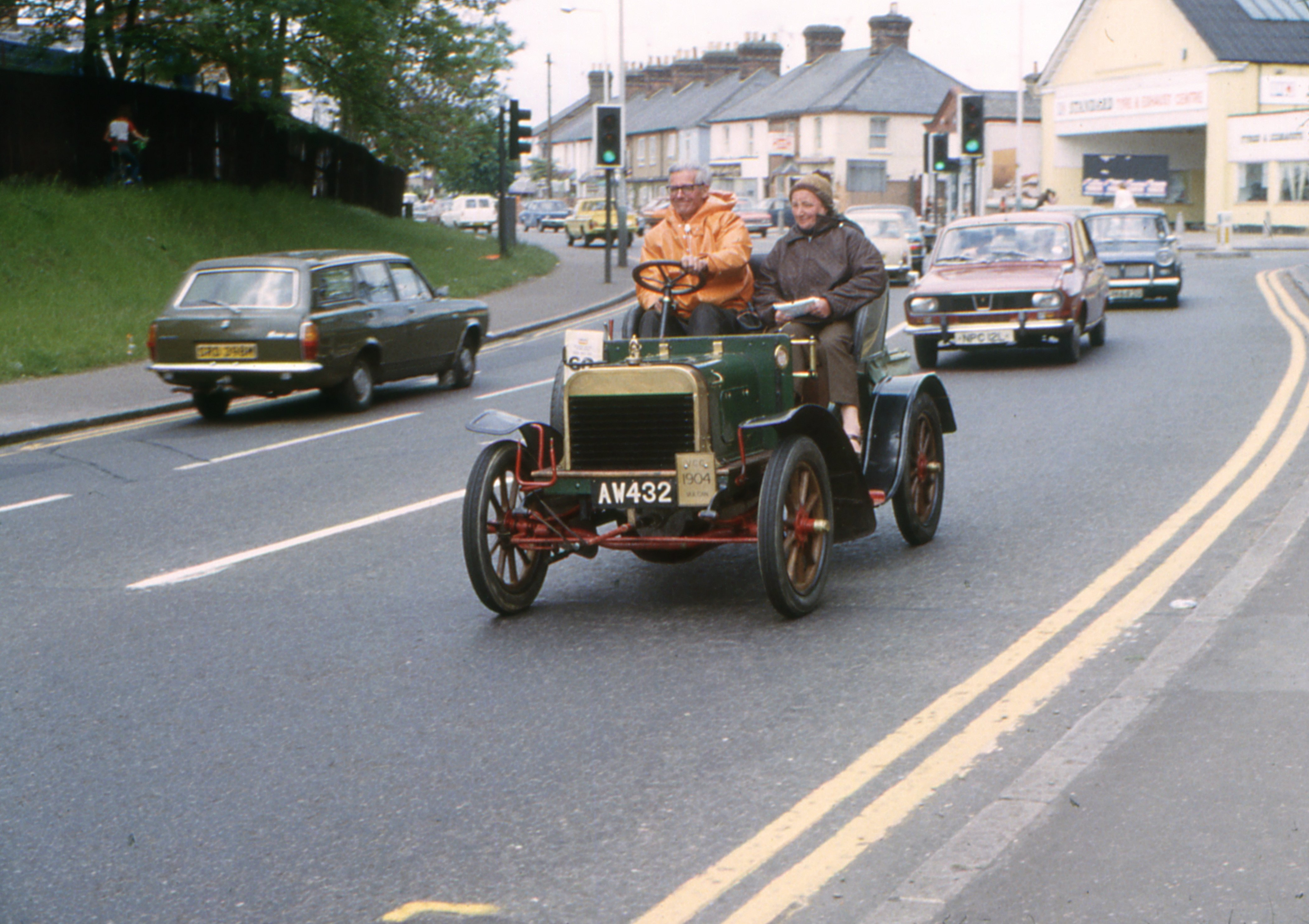 1904 Veteran car passes through Micklefield High Wycombe on the old A40 road to London. Early in the 1980s. Camera: Olympus Pen F Half Frame SLR.